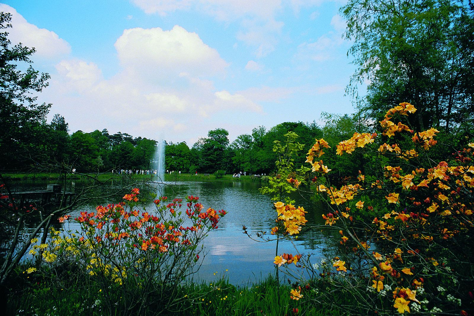 Rhododendronpark